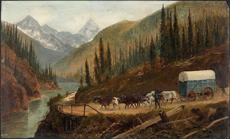 A Prairie Schooner on the Cariboo Road or in the vicinity of Rogers Pass, Selkirk Mountains, c. 1887, by Edward Roper (1833-1909).